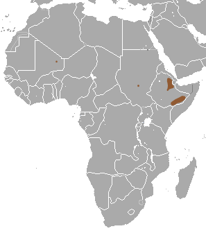 Somali Shrew (Crocidura somalica) range